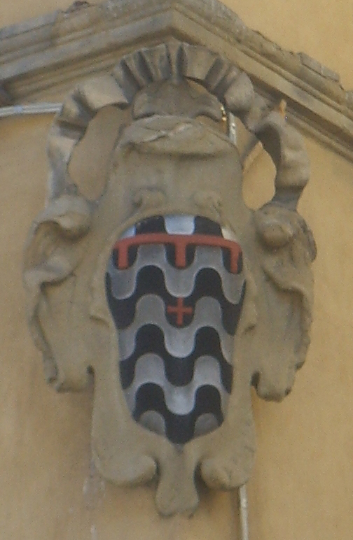 Coat of arms of the Pitti family. Piazza Pitti in Florence, Italy